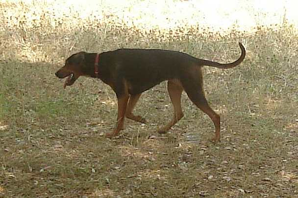 Female Serbian Hound 2 years old